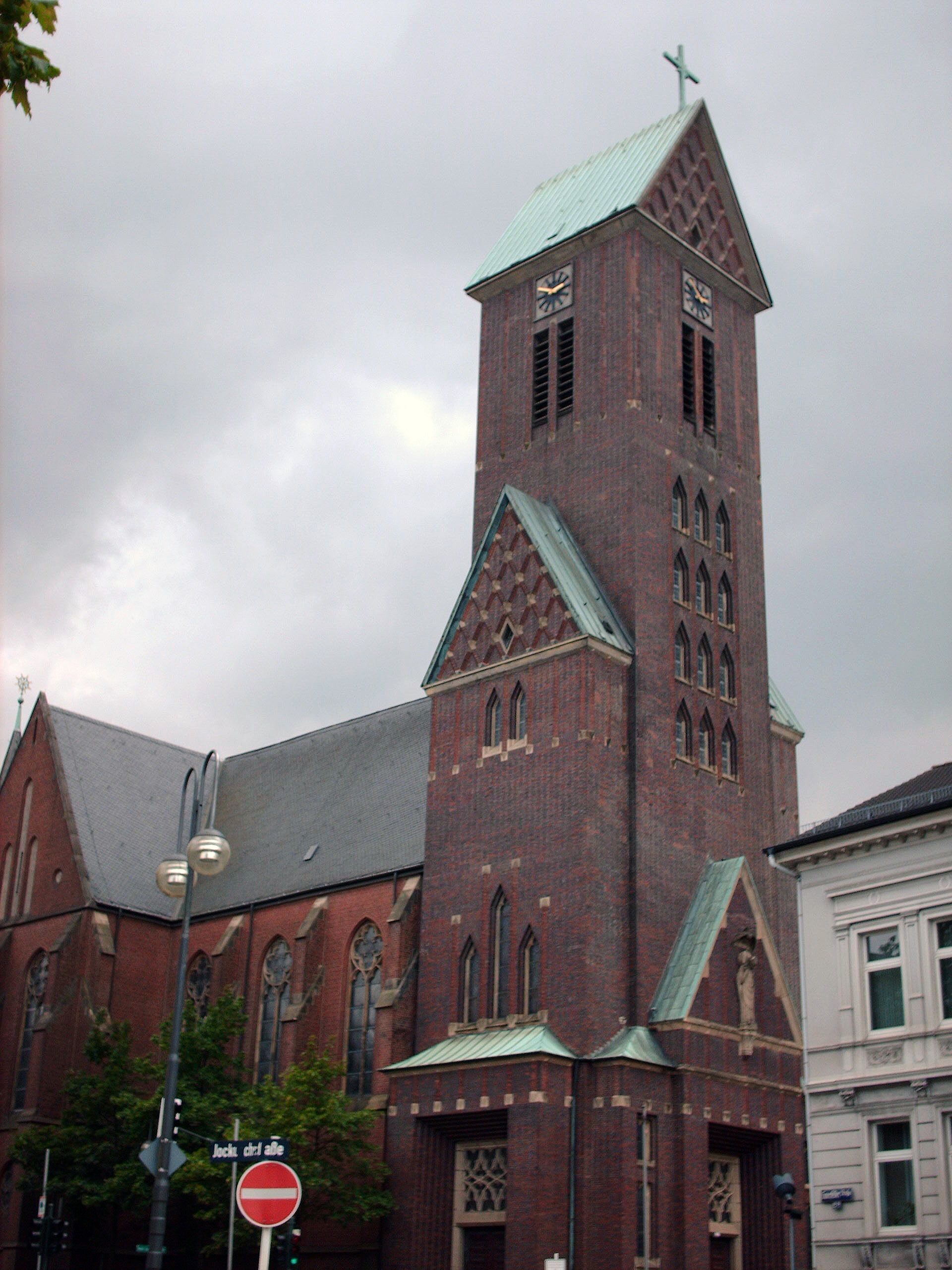 St. Joseph und Medardus, Lüdenscheid, Germany